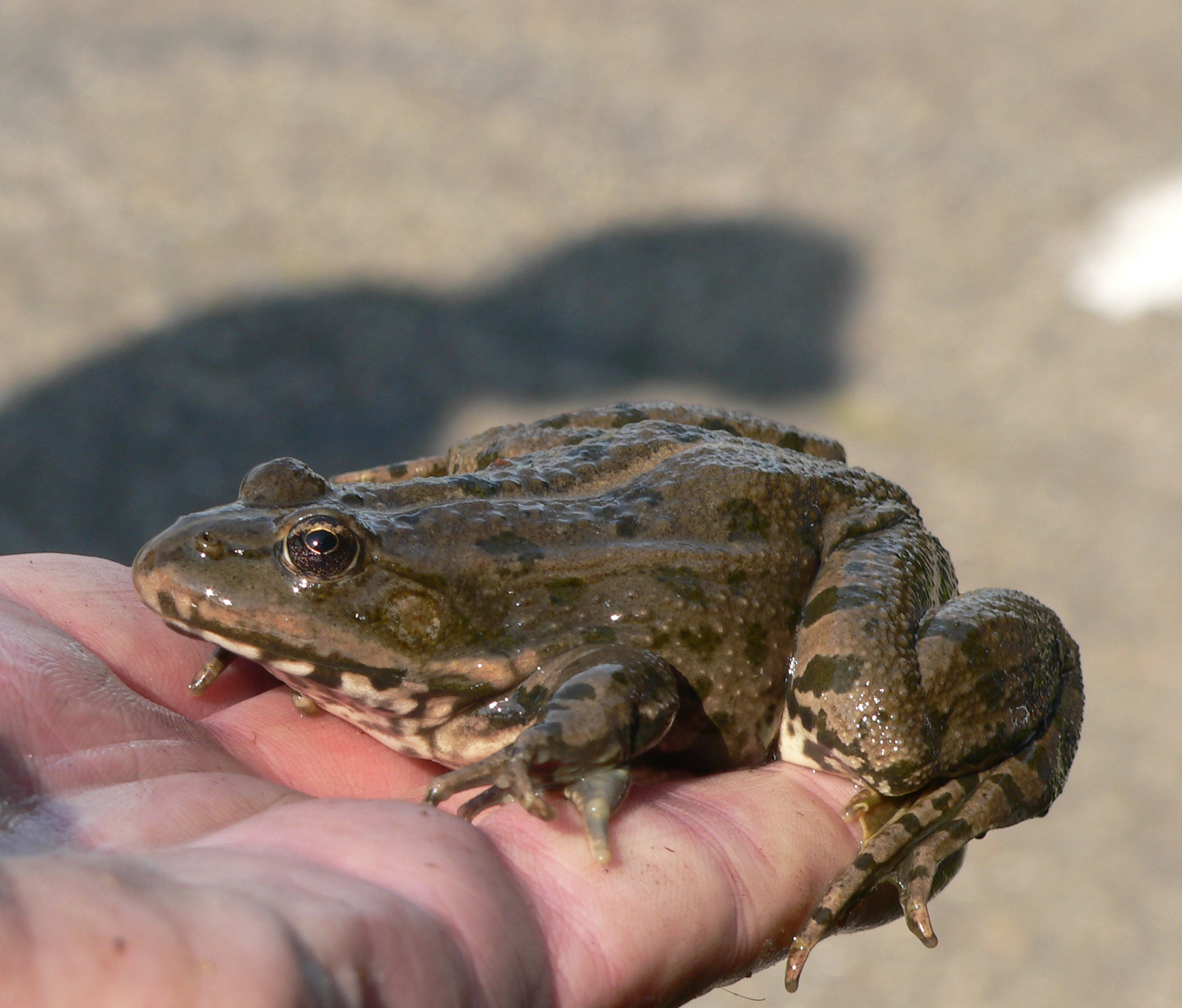 Large Marsh Frog caught near a stream near Ohe, Zuid Limburg, The Netherlands. This olive brown large spotted variety is typical for the south of the Netherlands.